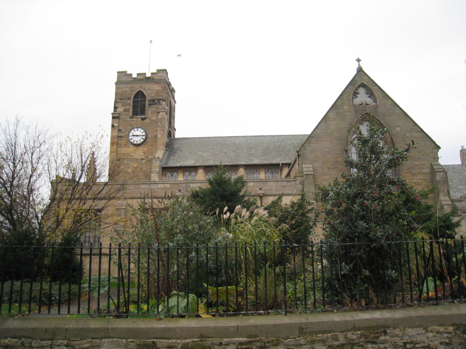 Minster Church of St Michael and All Angels and St Benedict Biscop, Church Lane, Sunderland, Tyne and Wear, seen from the south